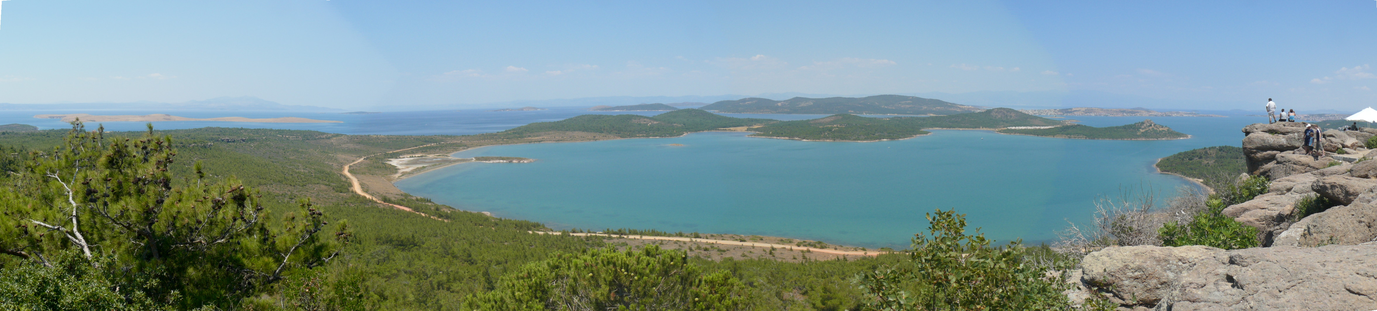 Panoram view of bay of Ayvalik (Turkey)